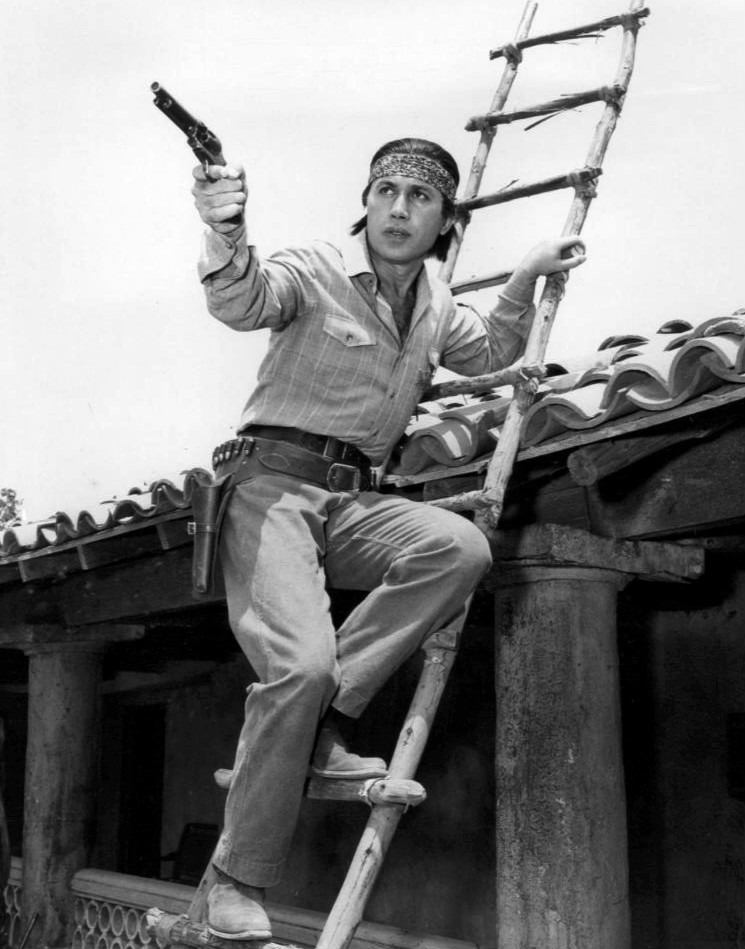 Photo of Michael Ansara from the television program Law of the Plainsman.